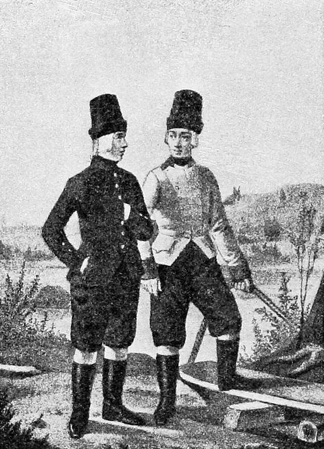 Military engineering in Russian Empire